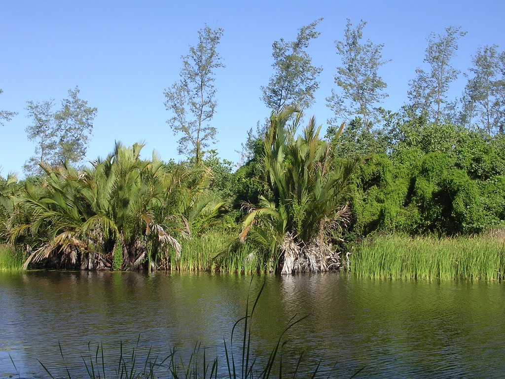 Asan Foun freshwater lagoon, Tilomar, Covalima, Timor-Leste May 2005, (the palm is Sago Palm Metroxylon sagu, reedbeds, and probably an undescribed Casuarina sp in background)